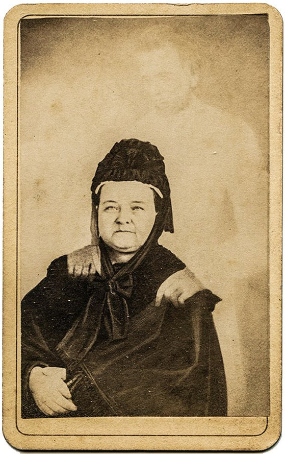 Picture of the ghost of Abraham Lincoln with Mary Lincoln